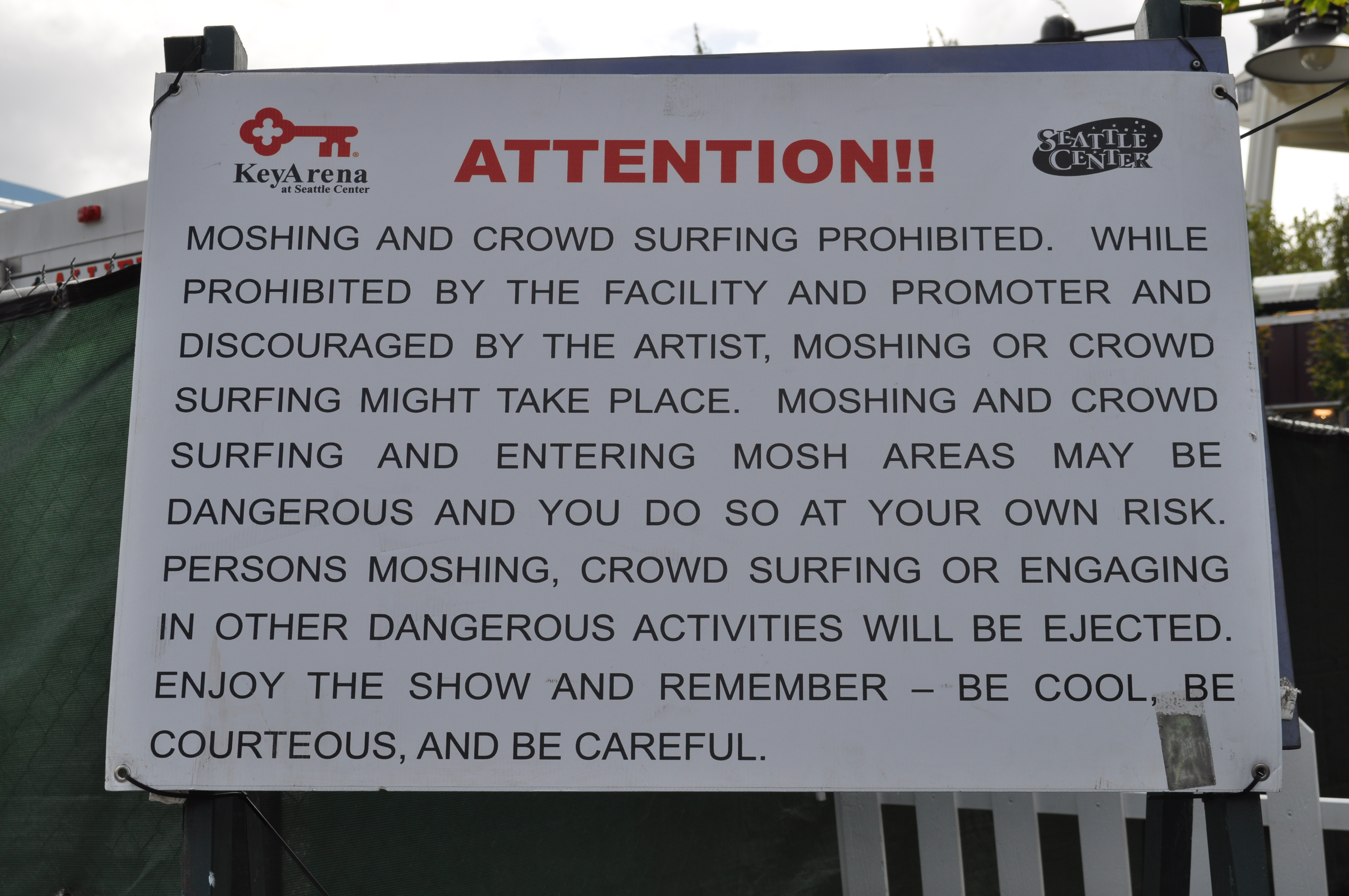 "No moshing" sign, Bumbershoot 2010, Seattle Center, Seattle, Washington.